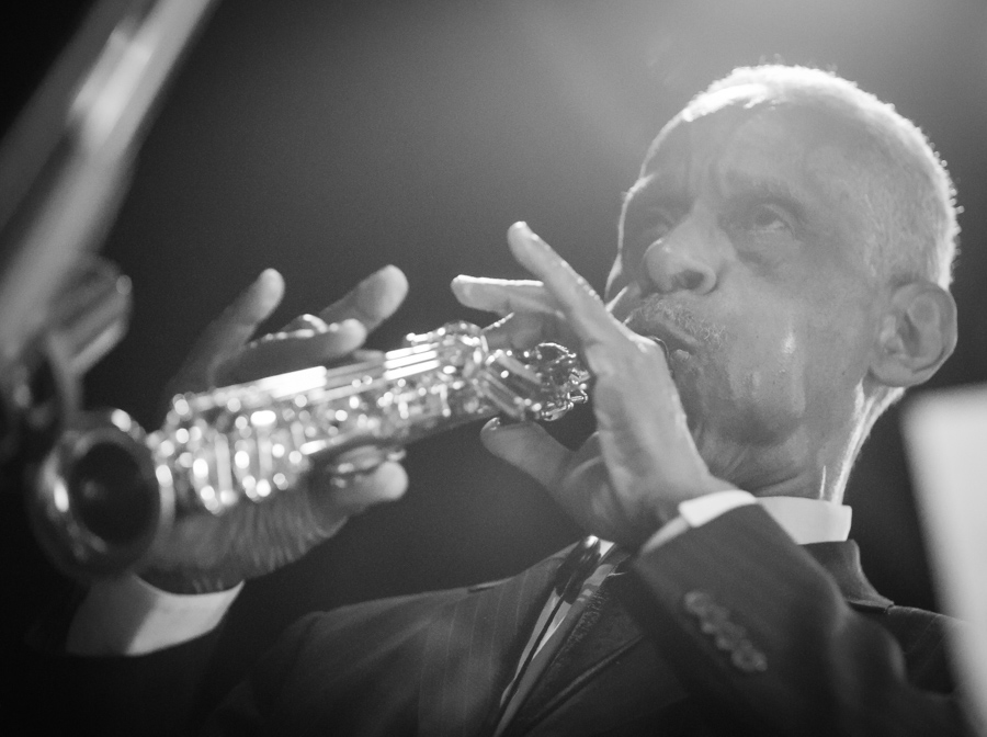 Roscoe Mitchell with Art Ensemble of Chicago at the stage of Energimølla. The concert was part of Kongsberg Jazzfestival and took place on 07. July 2017. Lineup: Roscoe Mitchell (saxophone) Hugh Ragin (trumpet) Jaribu Shahid (double bass) Don Moye (drums)